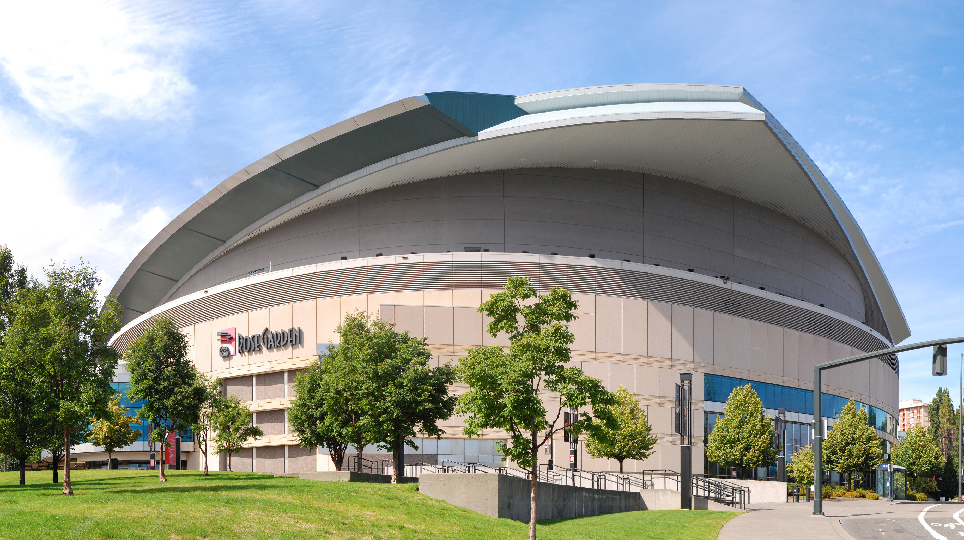 The Moda Center in Portland, Oregon. A 3x4 segment stitched panorama.